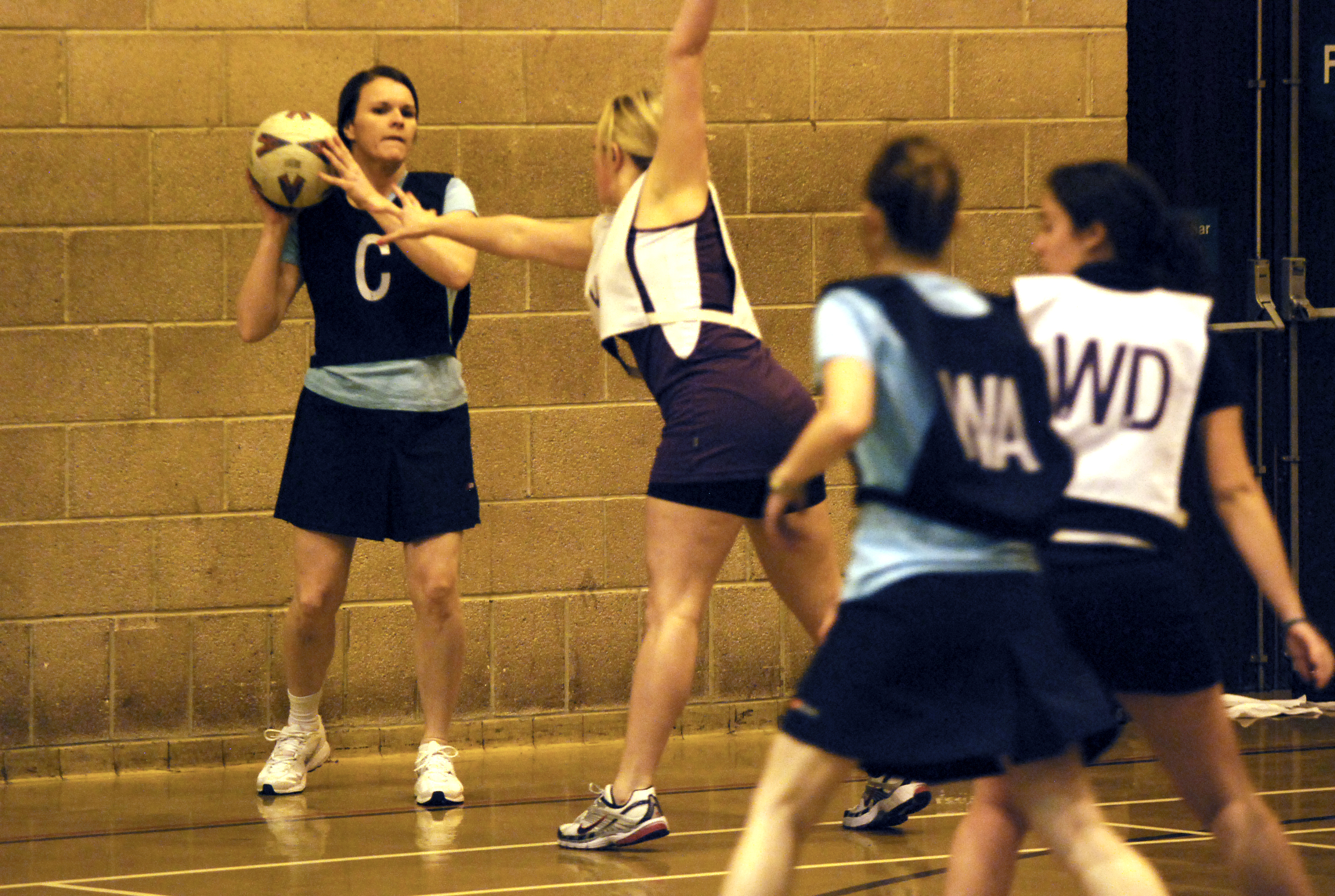 Netball game in Pudsey, Leeds in West Yorkshire, England.